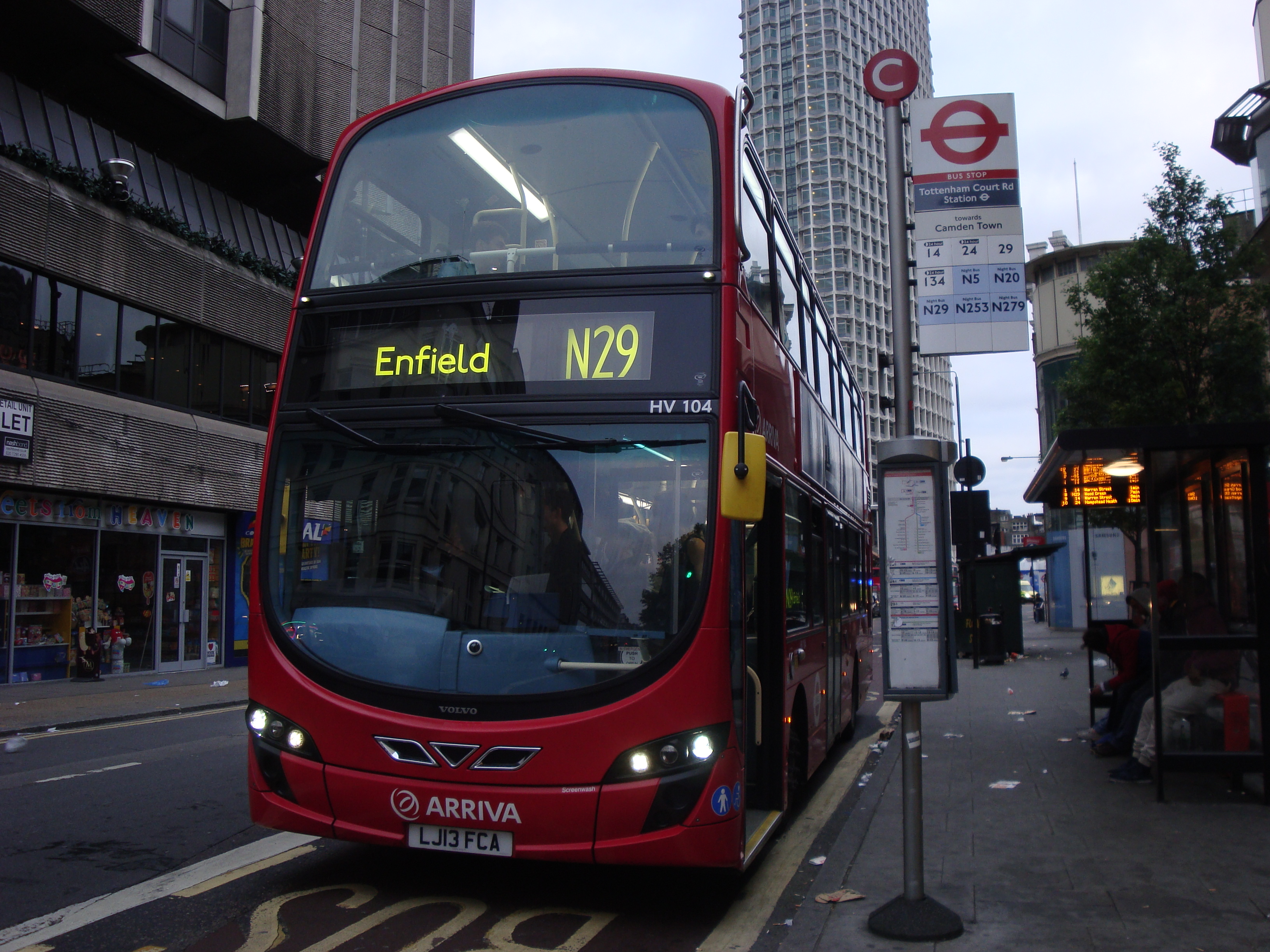 The most frequent night service in London is Route N29 (well, Wood Green-Trafalgar Square anyway), but with one of the many services to Enfield, Little Park Gardens is Arriva London HV104 on Route N29, Centrepoint/Tottenham Court Road